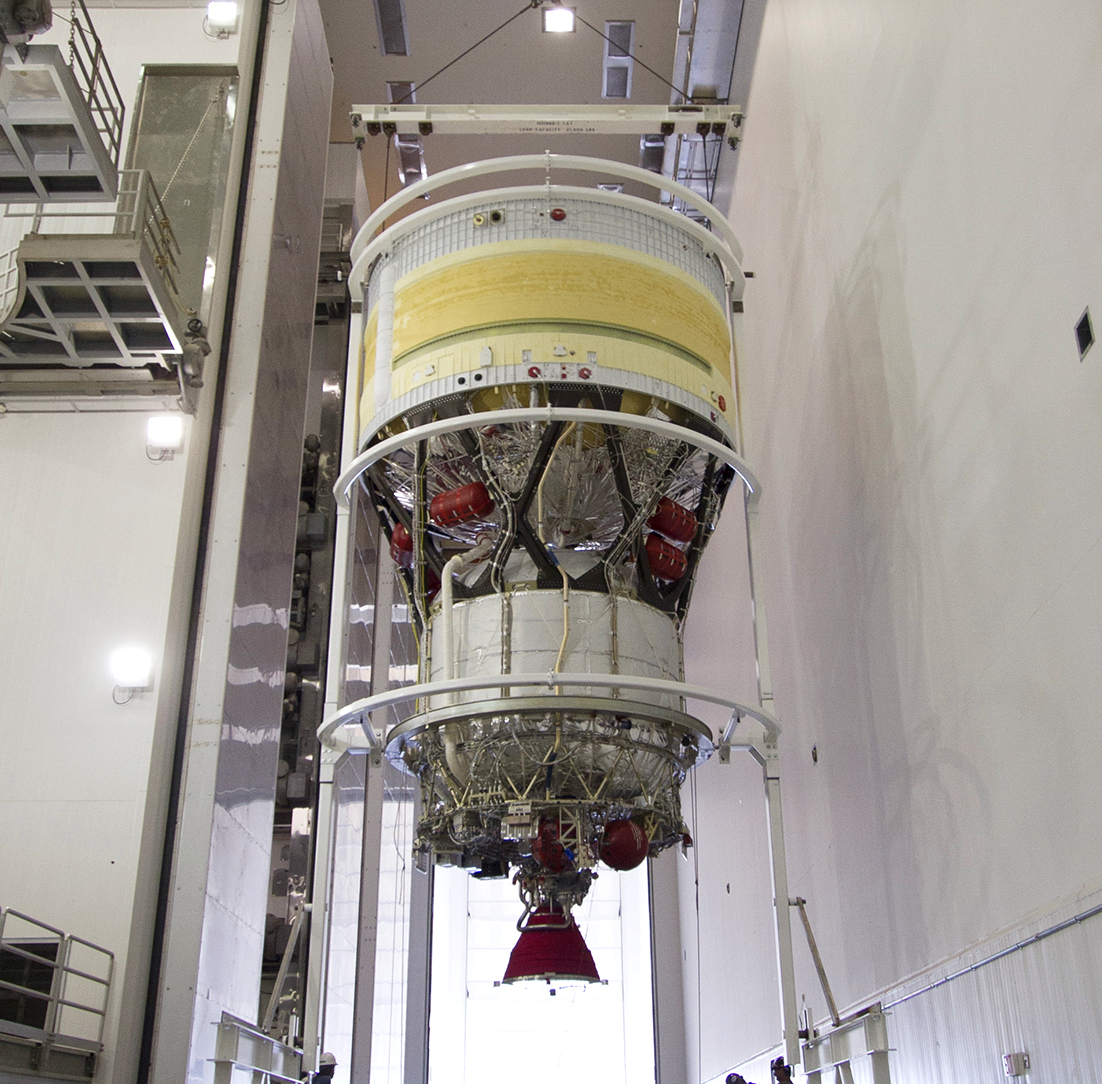 CAPE CANAVERAL, Fla. – Inside the Delta Operations Center near Space Launch Complex 37 on Cape Canaveral Air Force Station in Florida, the second stage for the United Launch Alliance Delta IV Heavy for Exploration Flight Test-1, or EFT-1, is lifted high by crane for the move to a test cell. At the Horizontal Integration Facility, all three booster stages will be processed and checked out before being moved to the nearby launch pad and hoisted into position. During the EFT-1 mission, Orion will travel farther into space than any human spacecraft has gone in more than 40 years. The data gathered during the flight will influence design decisions, validate existing computer models and innovative new approaches to space systems development, as well as reduce overall mission risks and costs for later Orion flights. Liftoff of Orion on EFT-1 is planned for fall 2014. Image ID: KSC-2014-3158